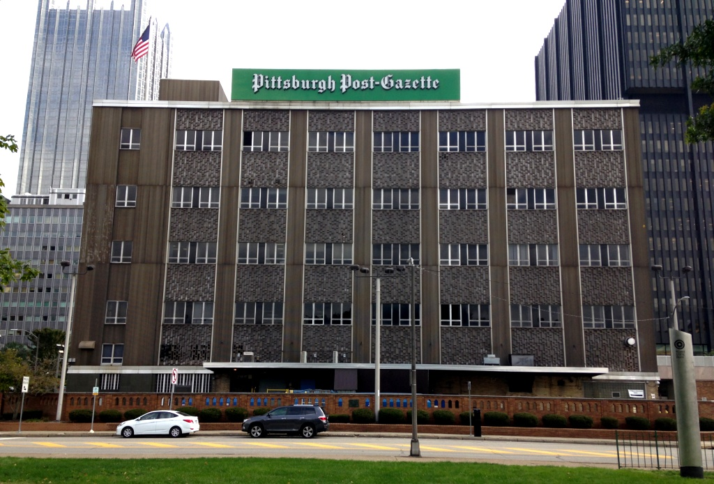 The Post Gazette building as viewed from Point State Park.